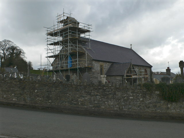 St Mary's Church, Derwen, Denbighshire/Sir Ddinbych, Wales. This mediaeval church is undergoing refurbishment - the windows have been sent away to be re-leaded, and modern paint and plaster is being stripped to be replaced by lime plaster and lime wash.